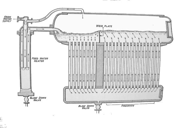 Woolnough boiler, longitudinal section showing circulation